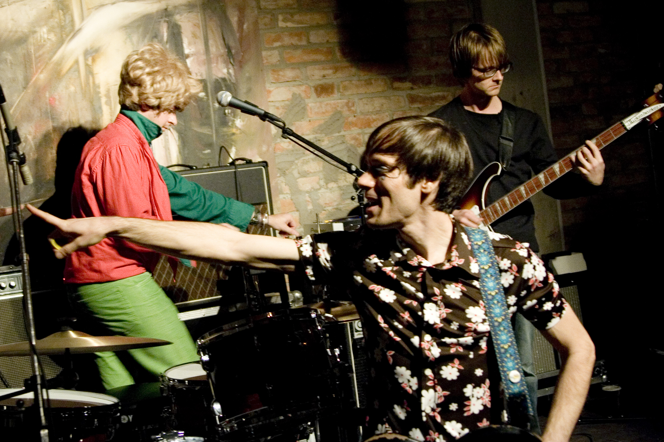 The band "Of Montreal" playing at Röda Sten in Göteborg/Gothenburg, Sweden on November 3, 2005. Cropped by 20 % from the left and from the top. Contrast adjusted and white balance corrected. From left to right: Jamie Huggins, Kevin Barnes, Matt Dawson.